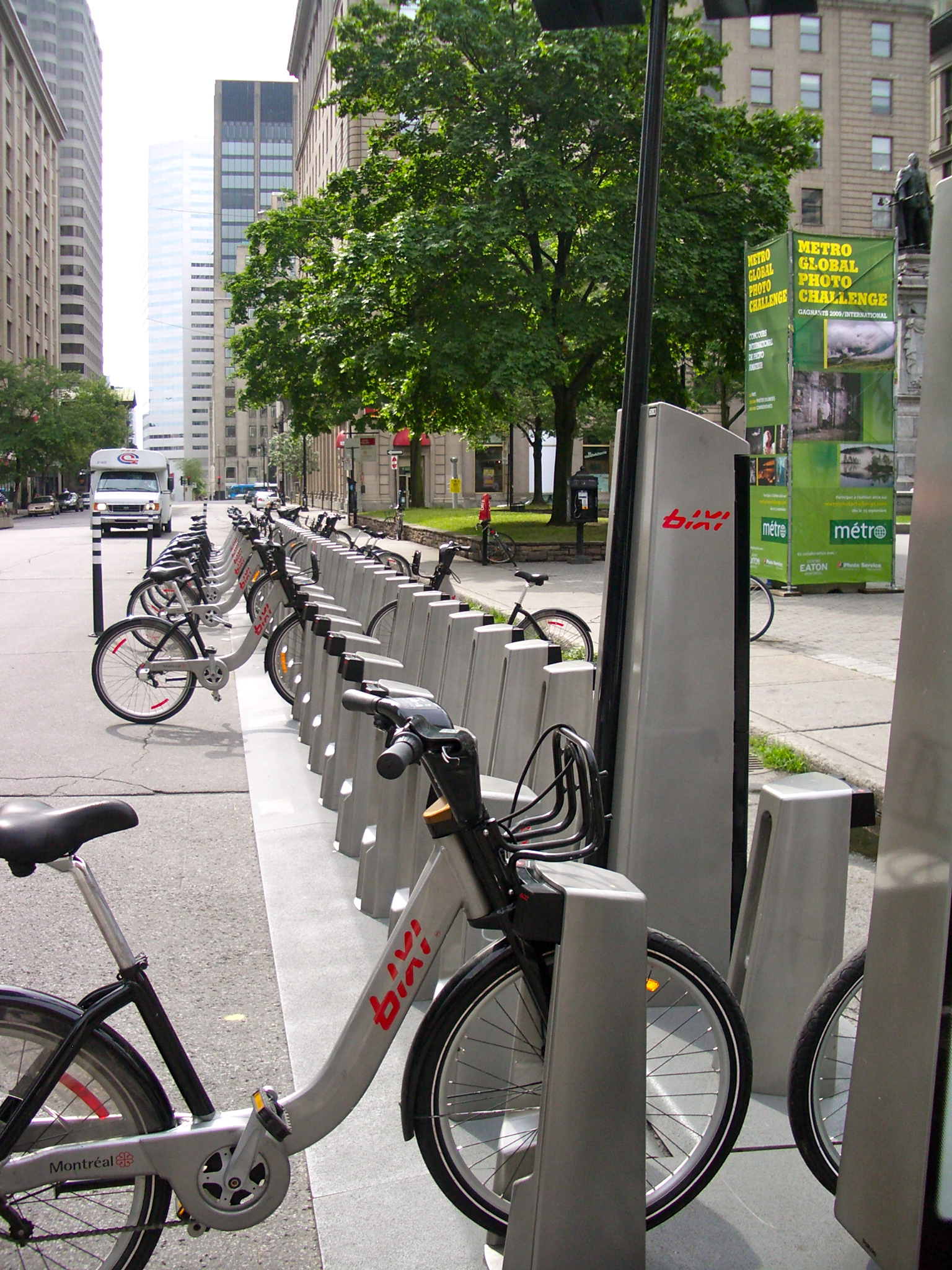 Bixi, rental bicycle system in Montreal.